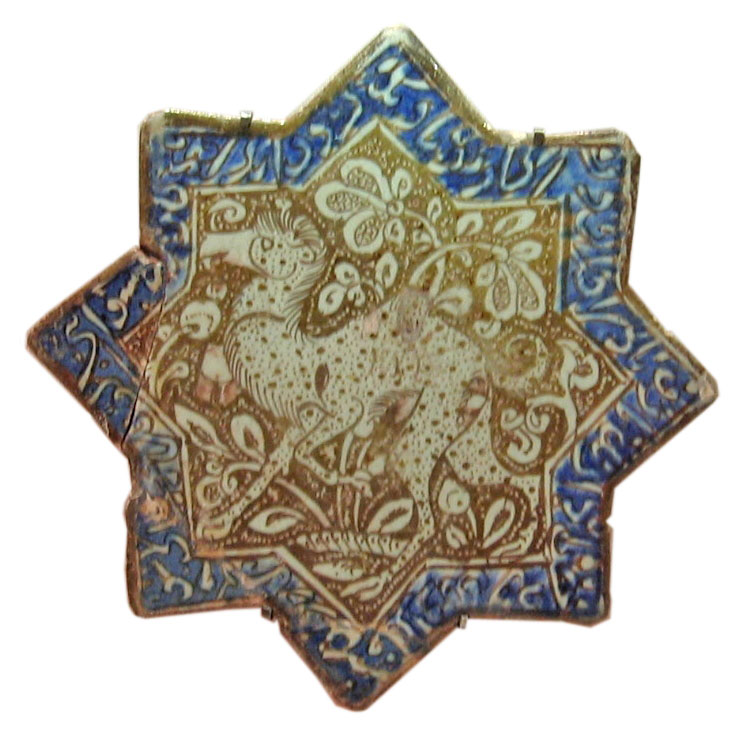 Star-shaped tile with camel.